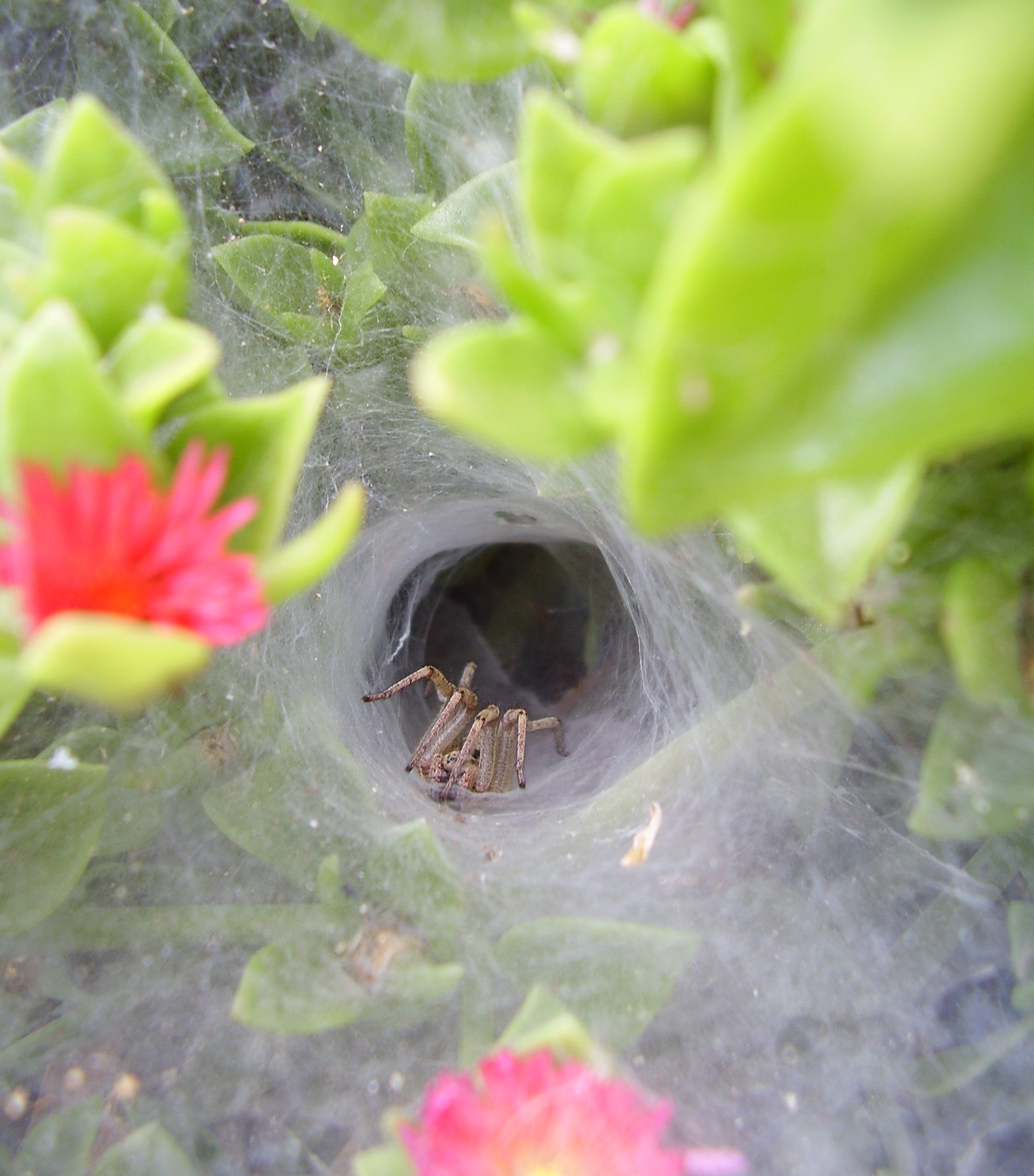 A funnel-web spider (family Agelenidae) in Karkur, Israel.